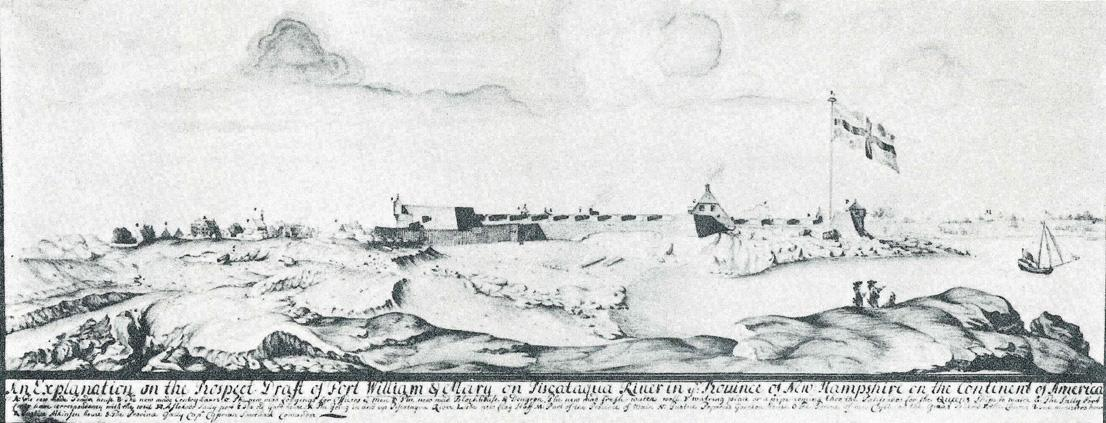 Fort William and Mary, New Castle, NH; from "An Explanation on the Prospect Draft of Fort William and Mary on Piscataqua River in ye Province of New Hampshire on the Continent of America," 1705. New Hampshire Historical Society, Concord, NH.